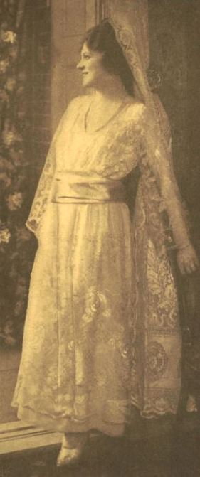 Ruth Chatterton in the play Moonlight and Honeysuckle, on page 529 of the December 1919 Muncey's Magazine.